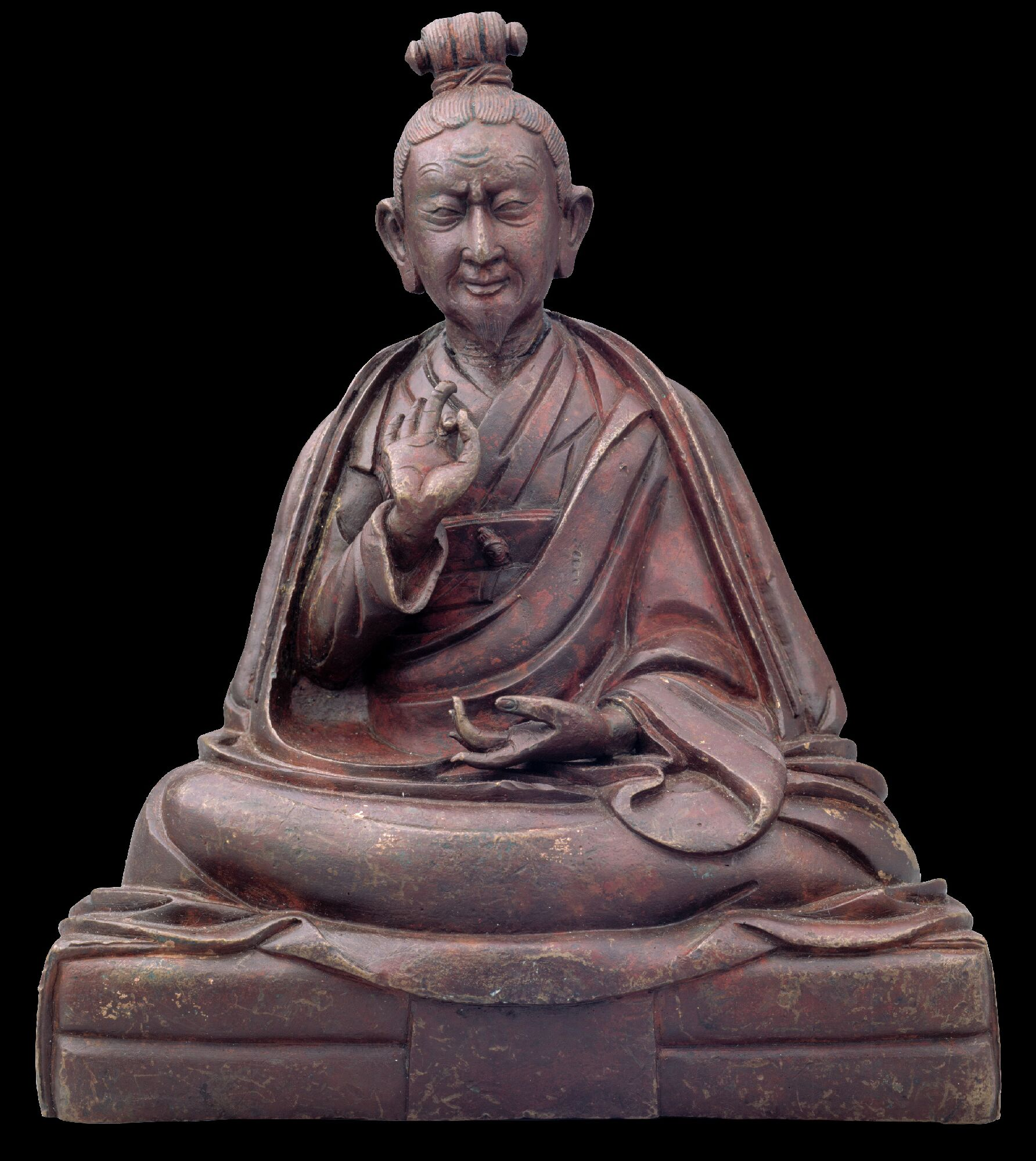 Jigme Lingpa, Nyingma monk, b.1729 - d.1798